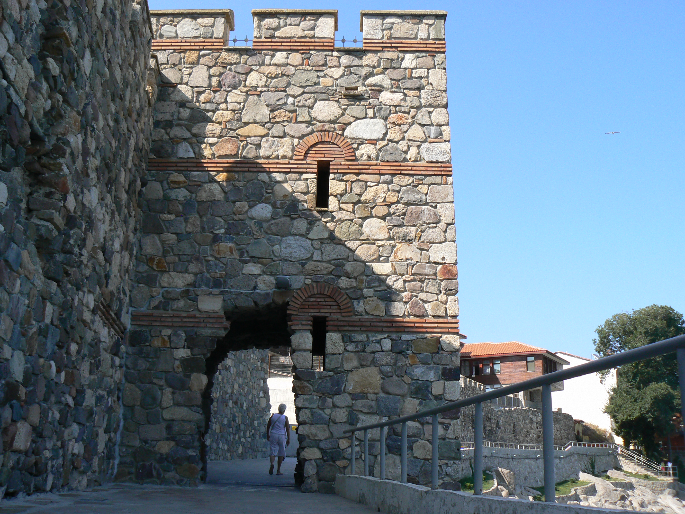 What is now remaining from the fortress in Sozopol